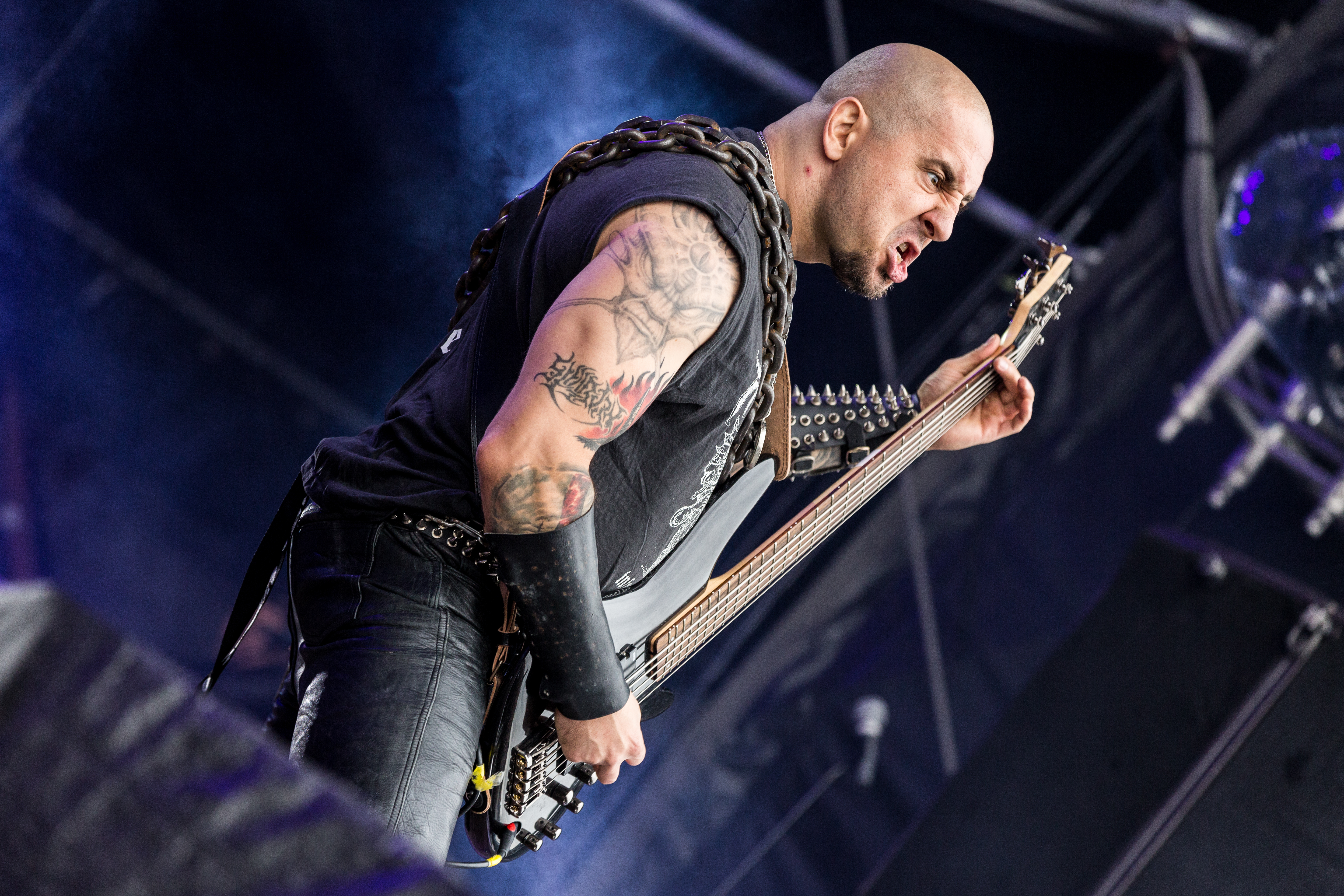 The Polish death/black metal band Azarath at the Party.San Metal Open Air 2016 in Obermehler-Schlotheim/Germany.